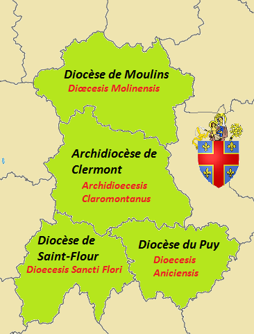 Ecclesiastical Province of Clermont. Auvergne, France. Province ecclésiastique de Clermont. Auvergne, France.